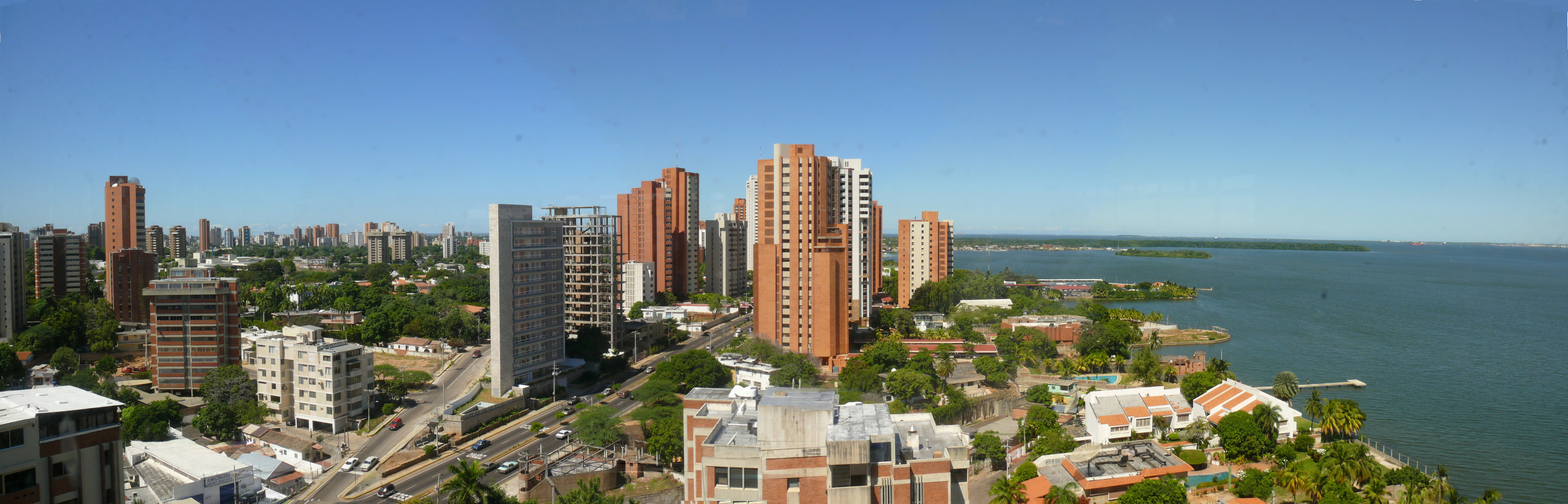 Panoramics of Maracaibo, Zulia, Venezuela.